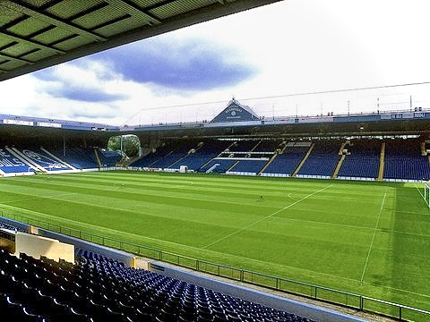 Hillsborough Stadium interior